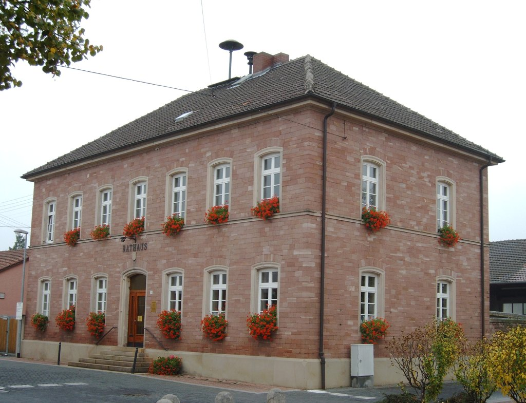 Town hall in Otterstadt